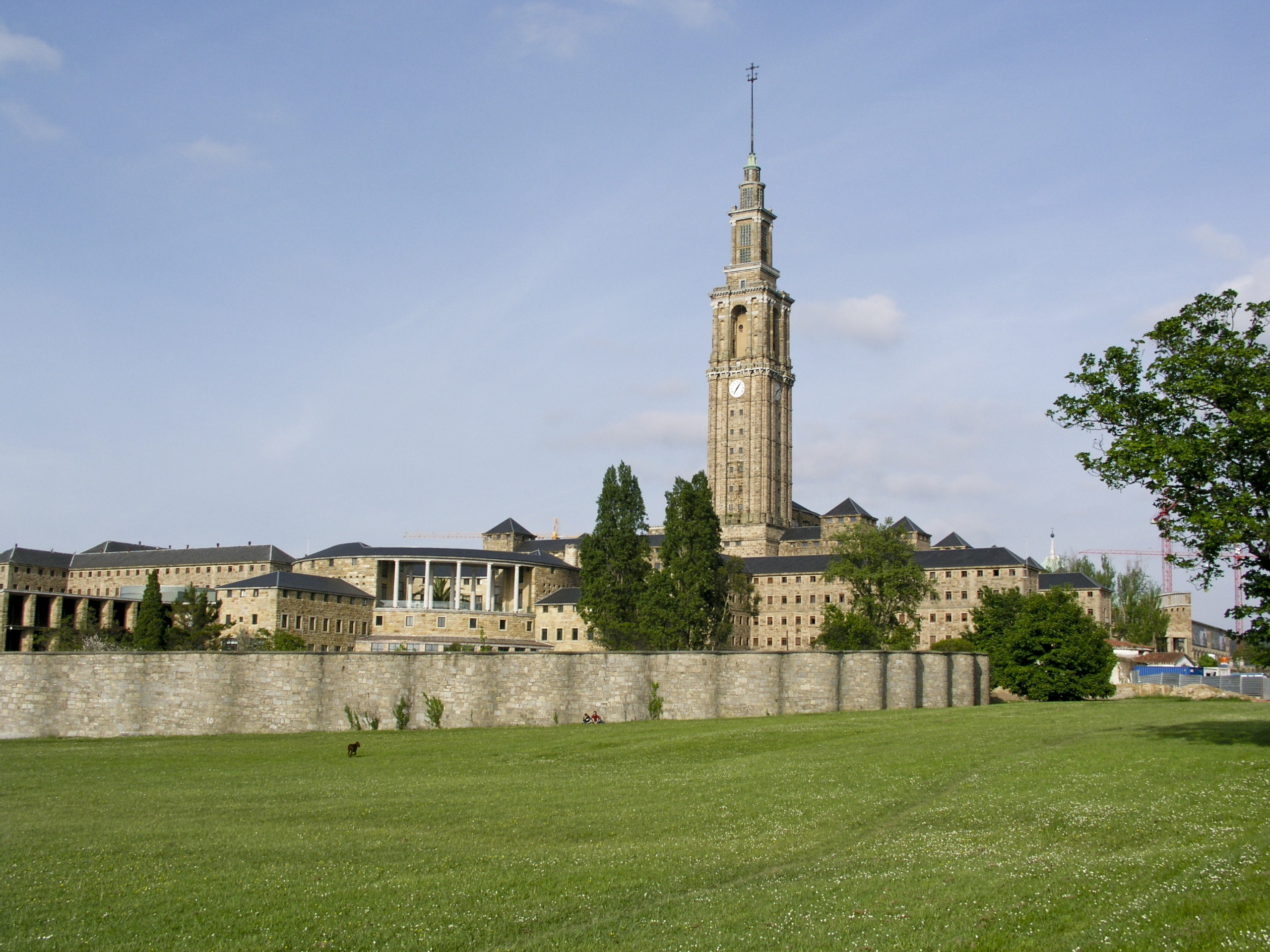 Universidad Laboral de Gijón, Spain